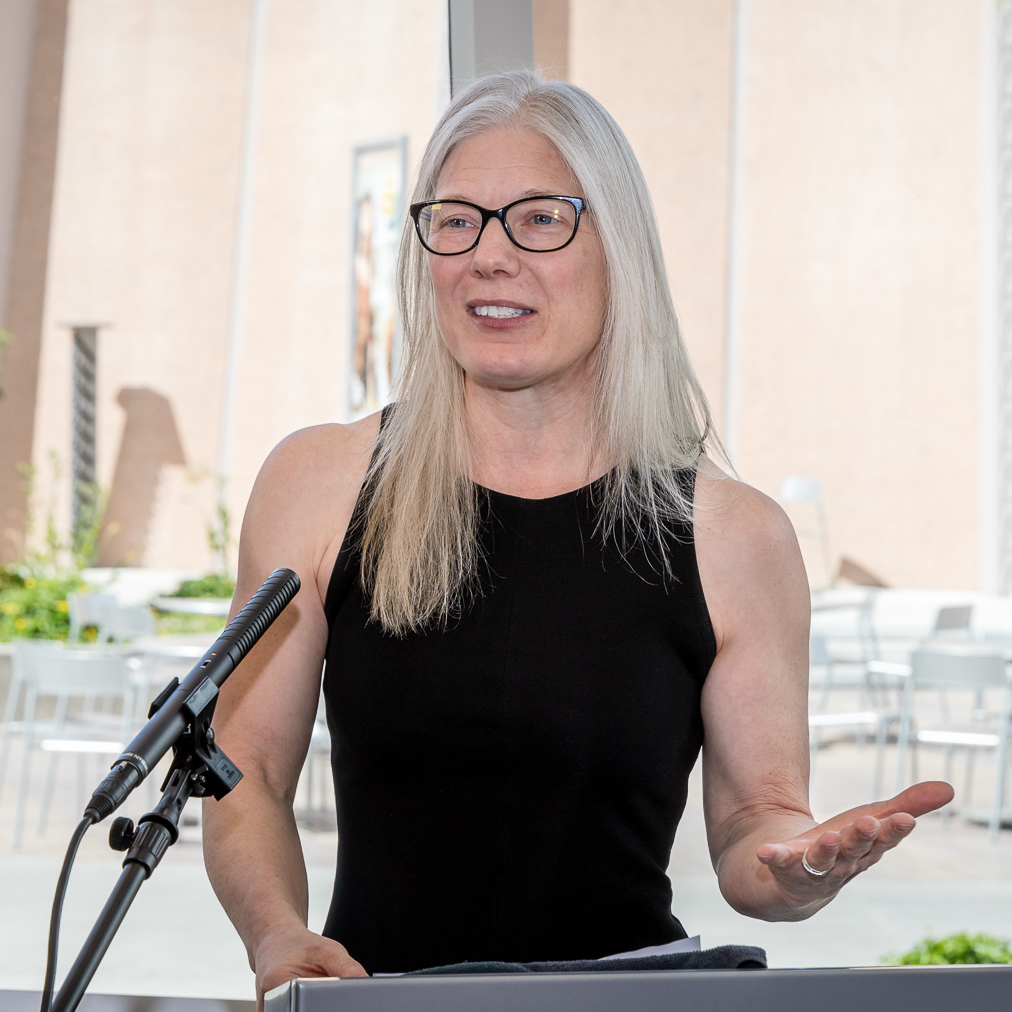 Original description: "The ASU Department of English celebrates its 2018-2019 graduates and award-winners! Grad and undergrad students completing any degree in the Department of English during spring 2019 were honored, as were those who have garnered scholarships, awards, and fellowships during the past school year. We also recognized our donors and faculty who have helped make it all happen. Our featured speaker was Foundation Professor Devoney Looser, an internationally recognized scholar of British women's writings, the history of the novel, and Jane Austen. The author or editor of eight books, Looser is a Guggenheim Fellow and NEH Public Scholar."